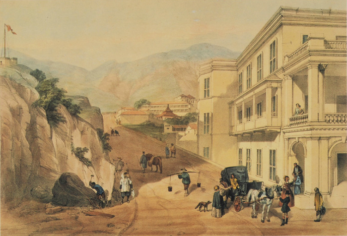 View of Wyndham Street Central 粵語: 一八四六年雲咸街。由書信館個位望上去。